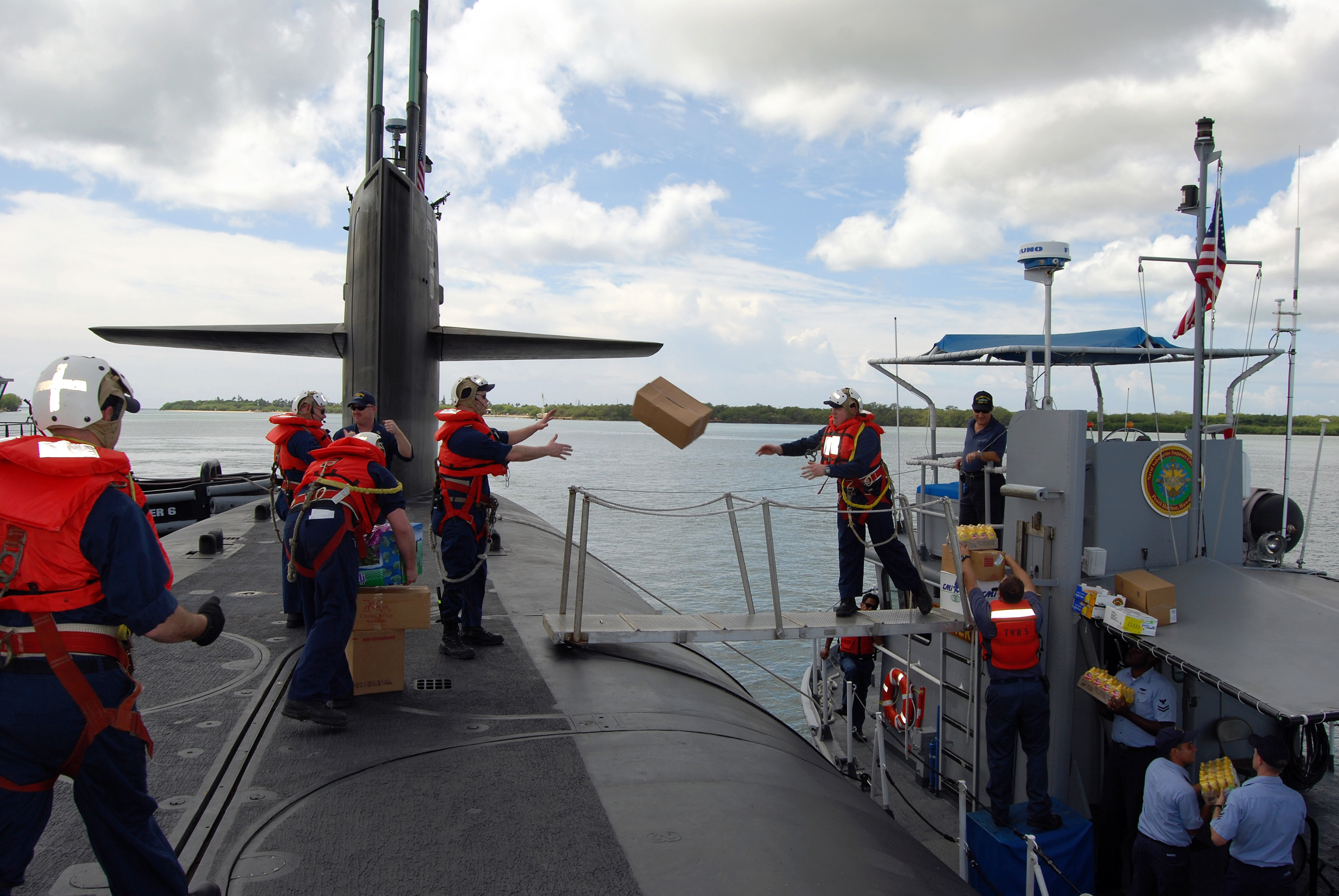 080331-N-6107B-003 PEARL HARBOR, Hawaii - Crew members aboard the ballistic missile submarine USS Henry M. Jackson (SSBN 730) load fresh Hawaiian fruit after arriving in Pearl Harbor after their first patrol in four years.